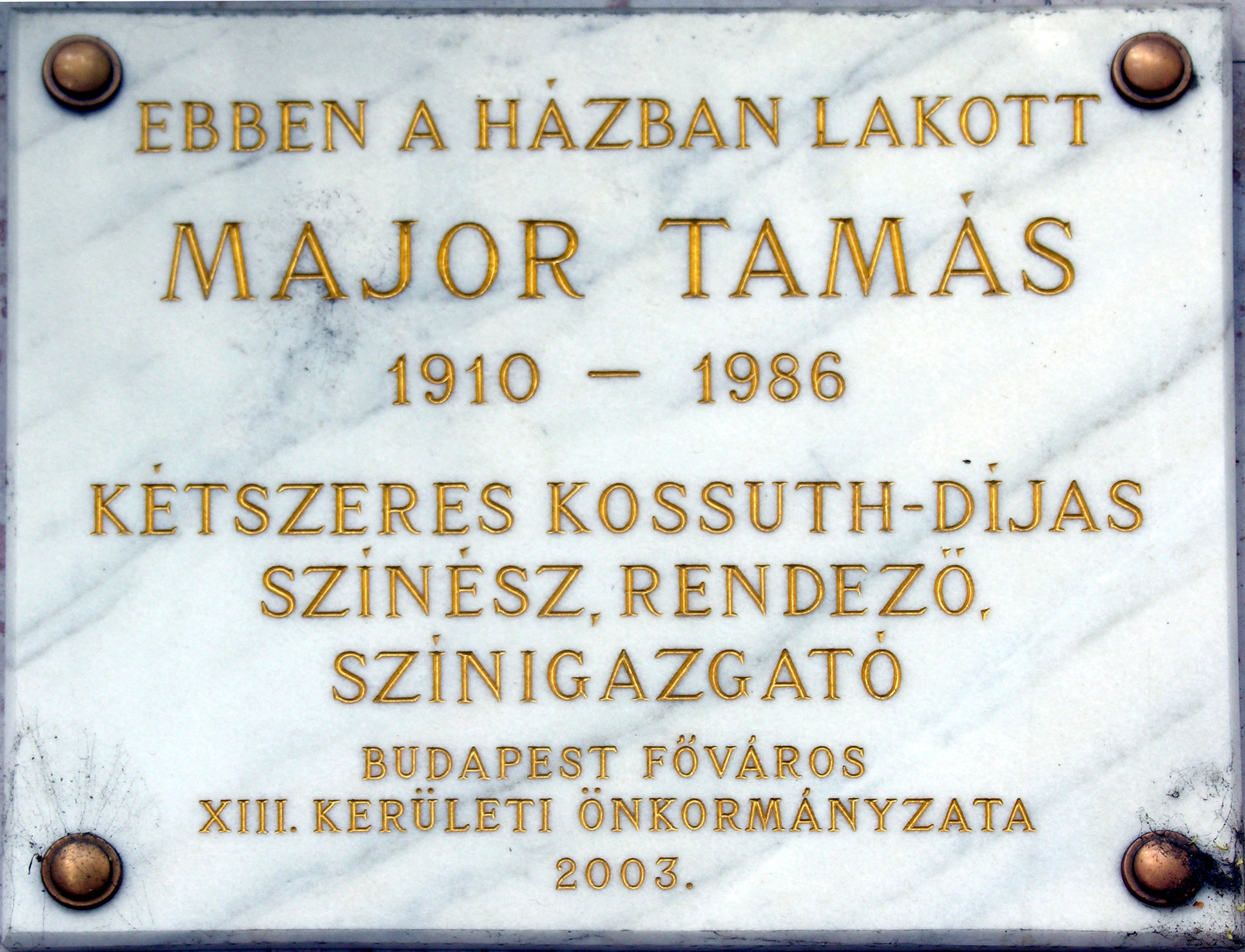 Commemorative plaque of Tamás Major in Budapest District XIII, Pozsonyi Street No 40